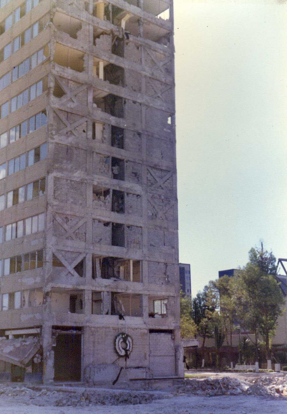 Images of Mexico City Earthquake, September 19, 1985.